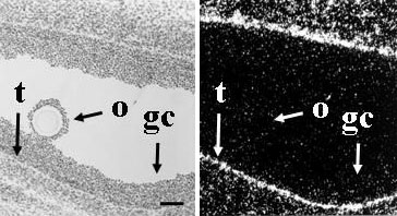 Tissue section with radioactive RNA in situ hybridization followed by coating with autoradiographic emulsion, development of silver grains and hematoxylin staining. See Methods section of original paper for details. From the original figure legend: Localization of expression of mRNA encoding TGF-βs in ovine ovaries. Panels a and b contain corresponding light field and dark field views of a type 5 follicle from an adult ewe hybridized to TGF-β1 antisense RNA. Silver grains indicating hybridization of the TGF-β1 antisense RNA are observed concentrated in thecal (t) cells close to the basement membrane with no specific hybridization observed in either the granulosa cells (gc) or oocyte (o). Scale bar equals approximately 100 μm.